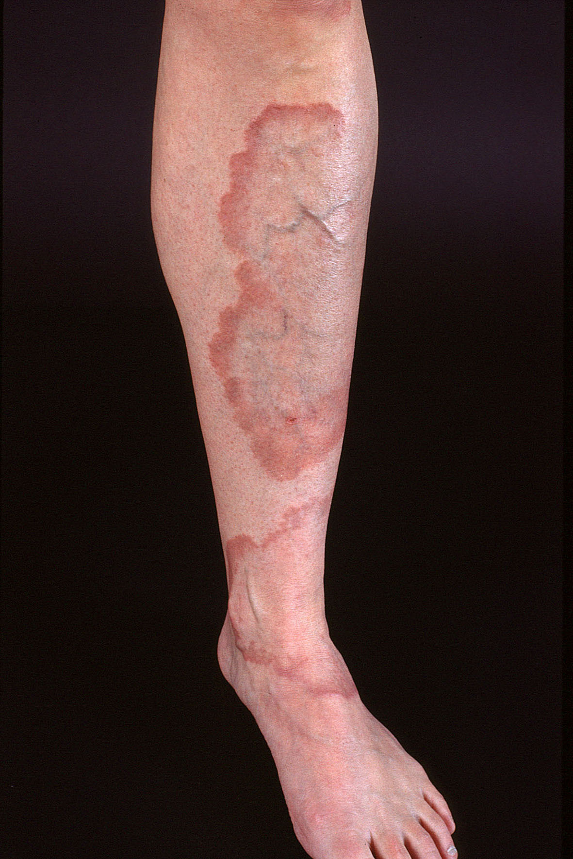 Long-standing disseminated granuloma annulare on the left or right leg.